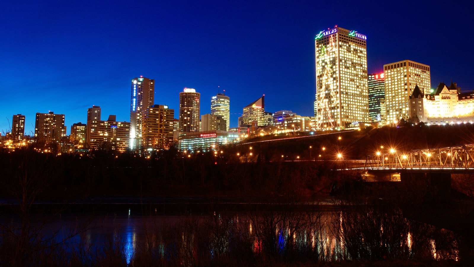 Coast Edmonton House, Crowne Plaza Chateau Lacombe, Canadian Western Bank Place, Telus Plaza, The Fairmont Hotel Macdonald, and the Low Level Bridge are a few of the landmarks visible in this view of the Edmonton skyline from Nellie McClung Park in the North Saskatchewan River valley.